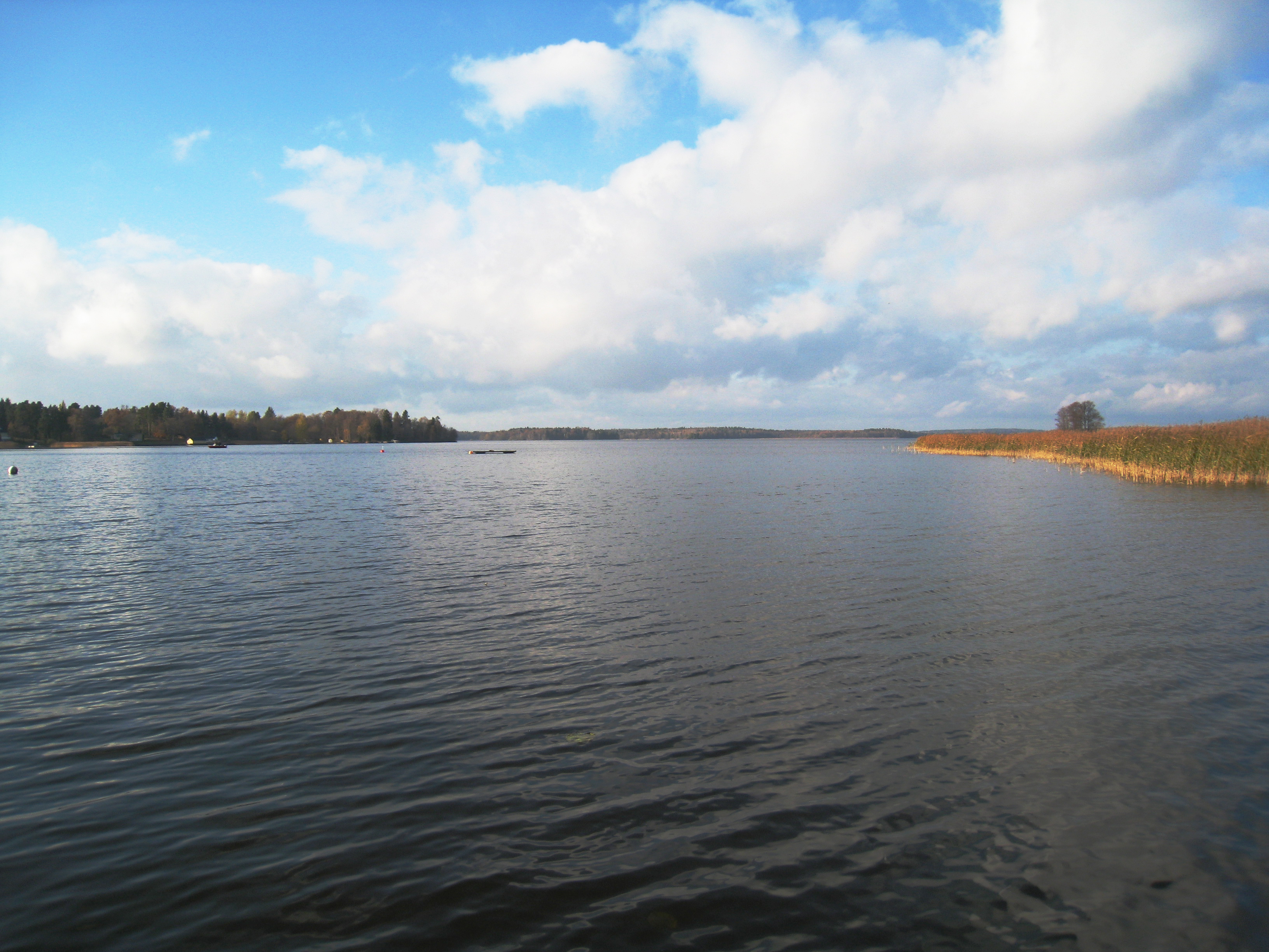 Badhusviken, a bay in Lake Mälaren, Sweden